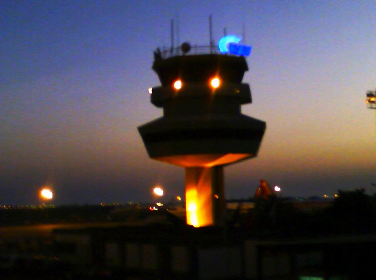 Faro Airport Control Tower took on a 02 XDA with a 1.3 Megapixel Camera at night from gate B52D